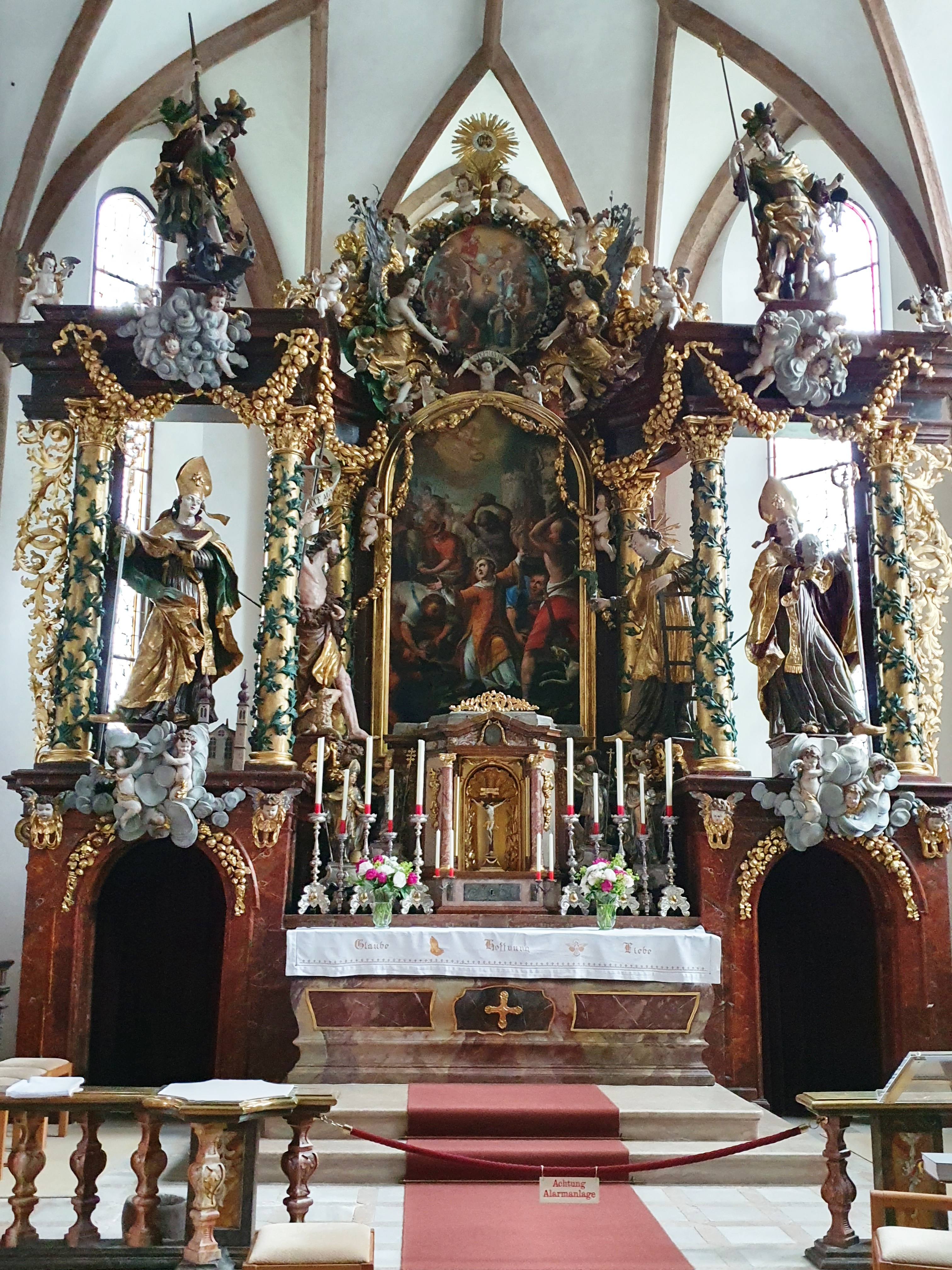 Choir Altar Oberalm 1707